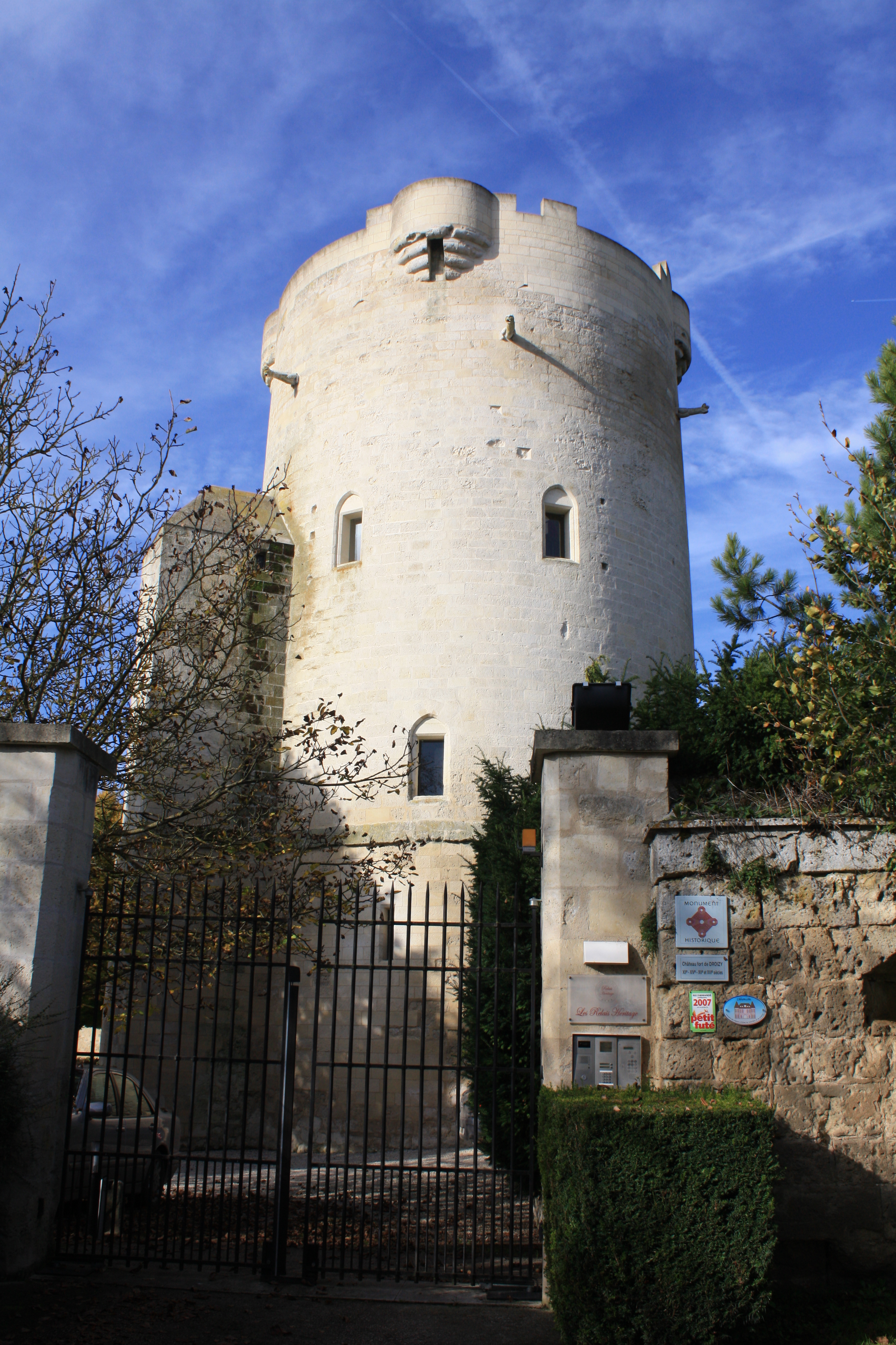 Château de droizy